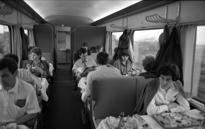 Juni 1988 Frankfurt a. M. - Lufthansa-Airport-Express